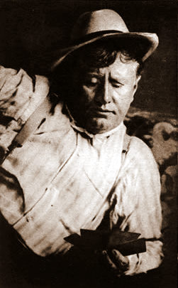 Portrait of Porter from frontispiece in his collection of short stories, Waifs and Strays. O. Henry